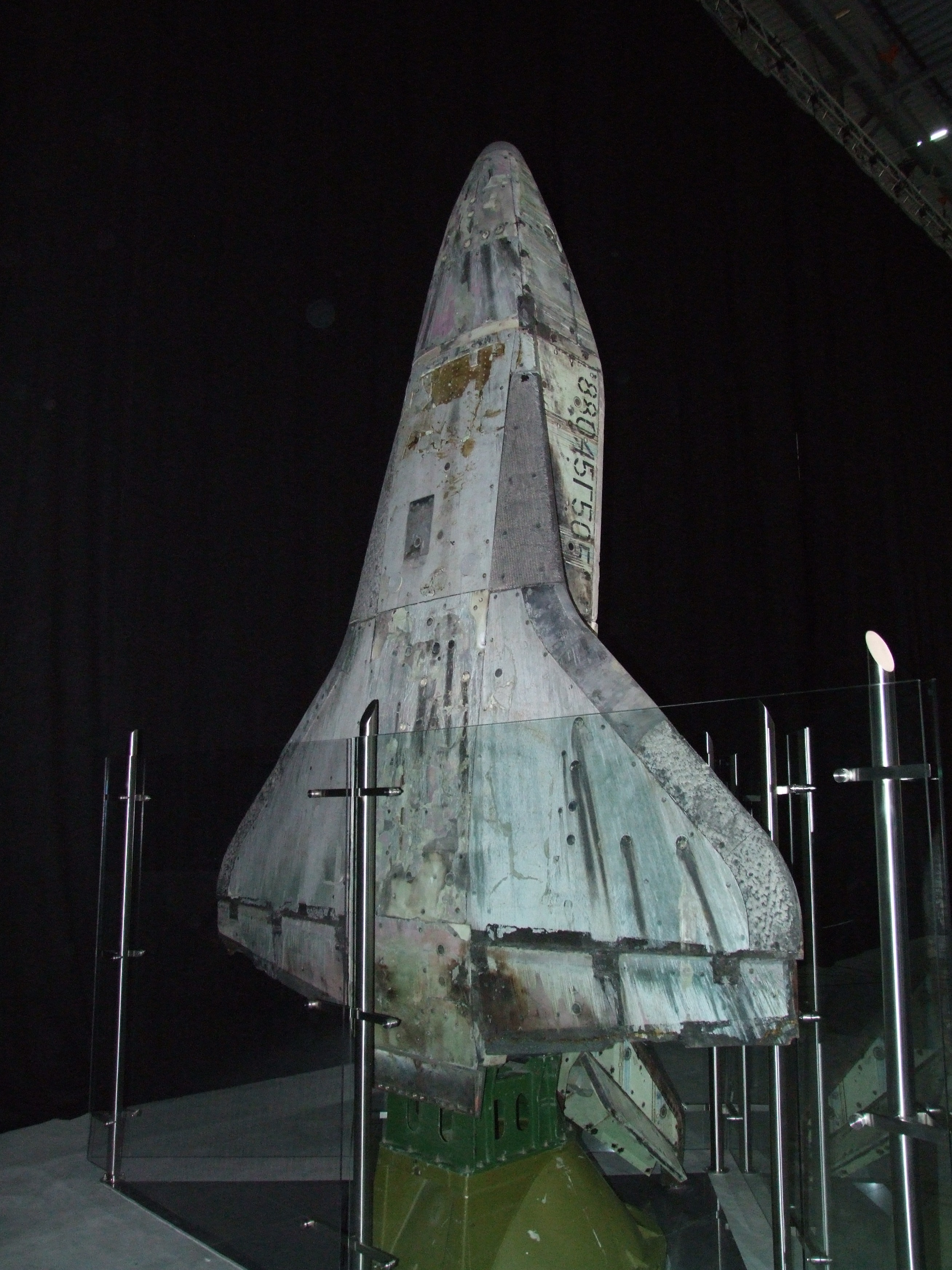 BOR-5, experimental model of space shuttle Buran, seen at the Technikmuseum Speyer in Germany. This is vehicle 505, one of five built.